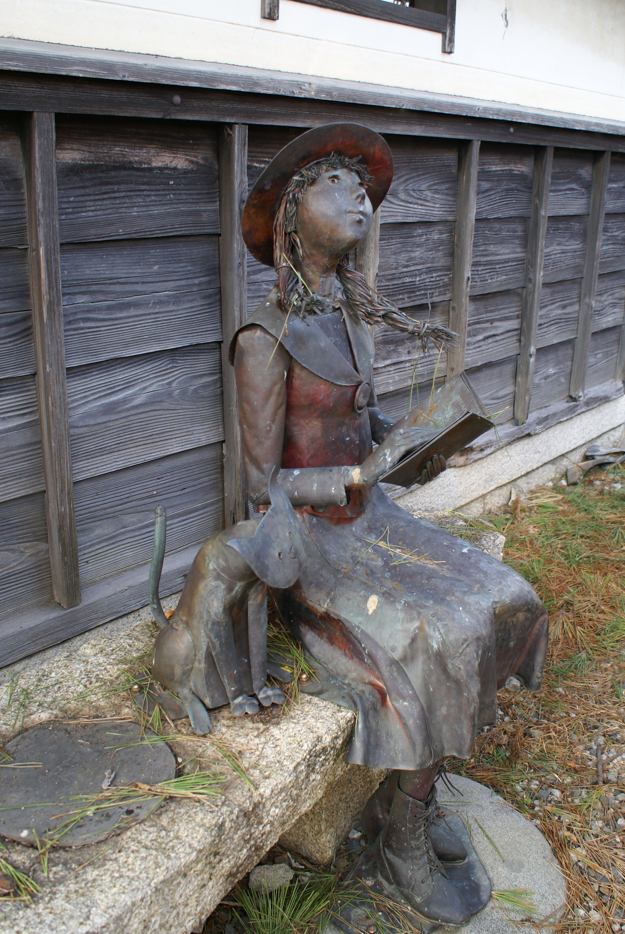 Scenery of the Kunitomo in Nagahama, Shiga, Japan